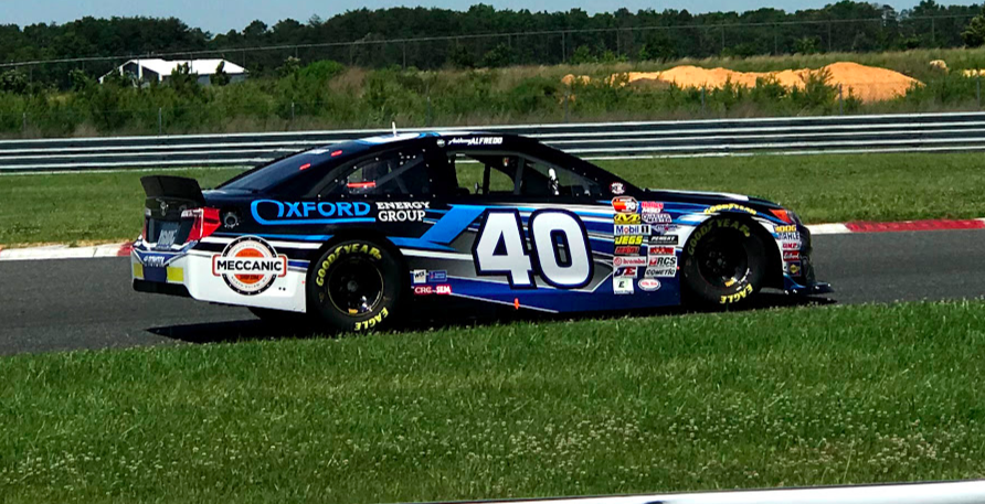 Anthony Alfredo qualifying for the 2018 125